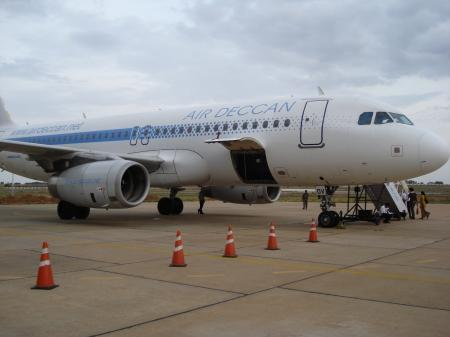 Air Deccan at Madurai airport